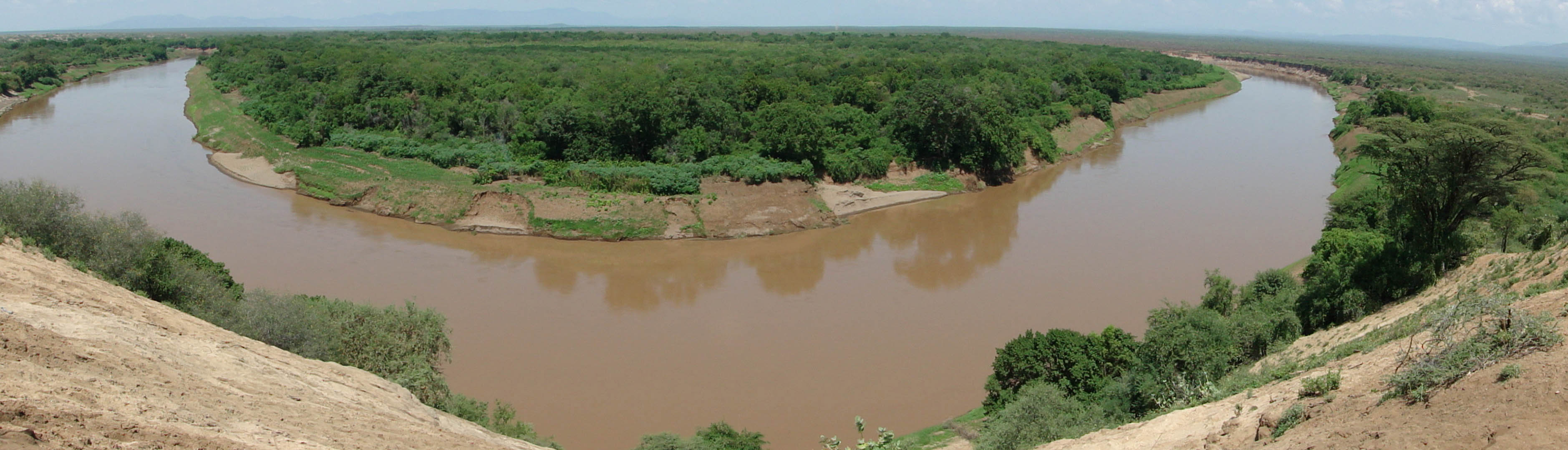 Omo River seen of Karo village of Doose, Ethiopia